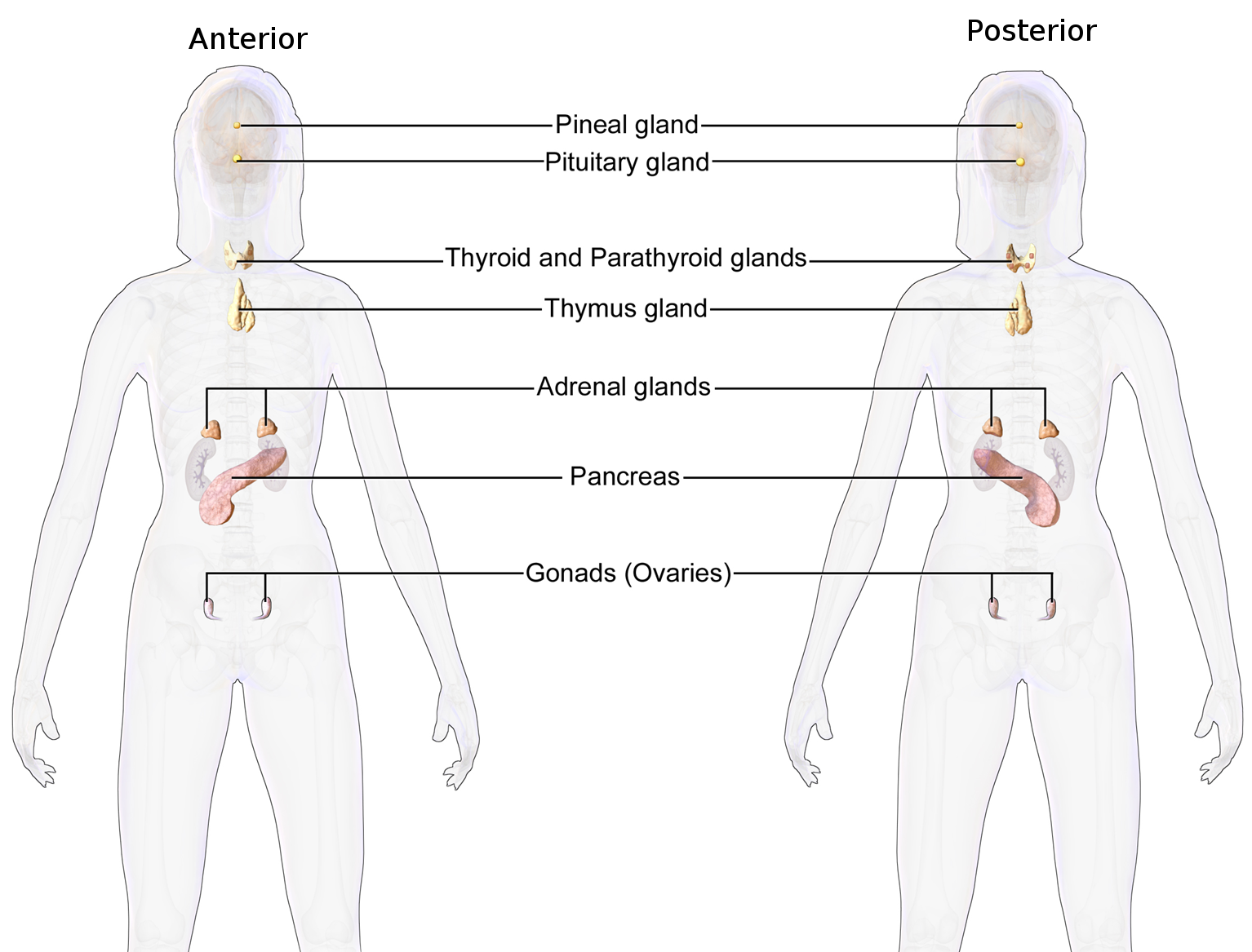 Endocrine System (Female). See a full animation of this medical topic.